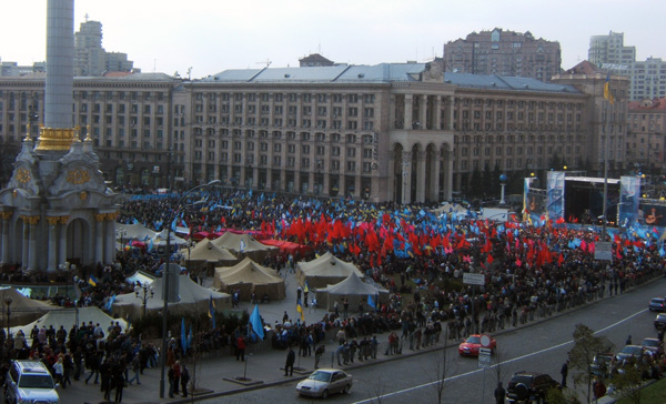 Meeting of anti-crisis coalition on April 17, 2007 on Maindan Nezalegnosti in Kyiv